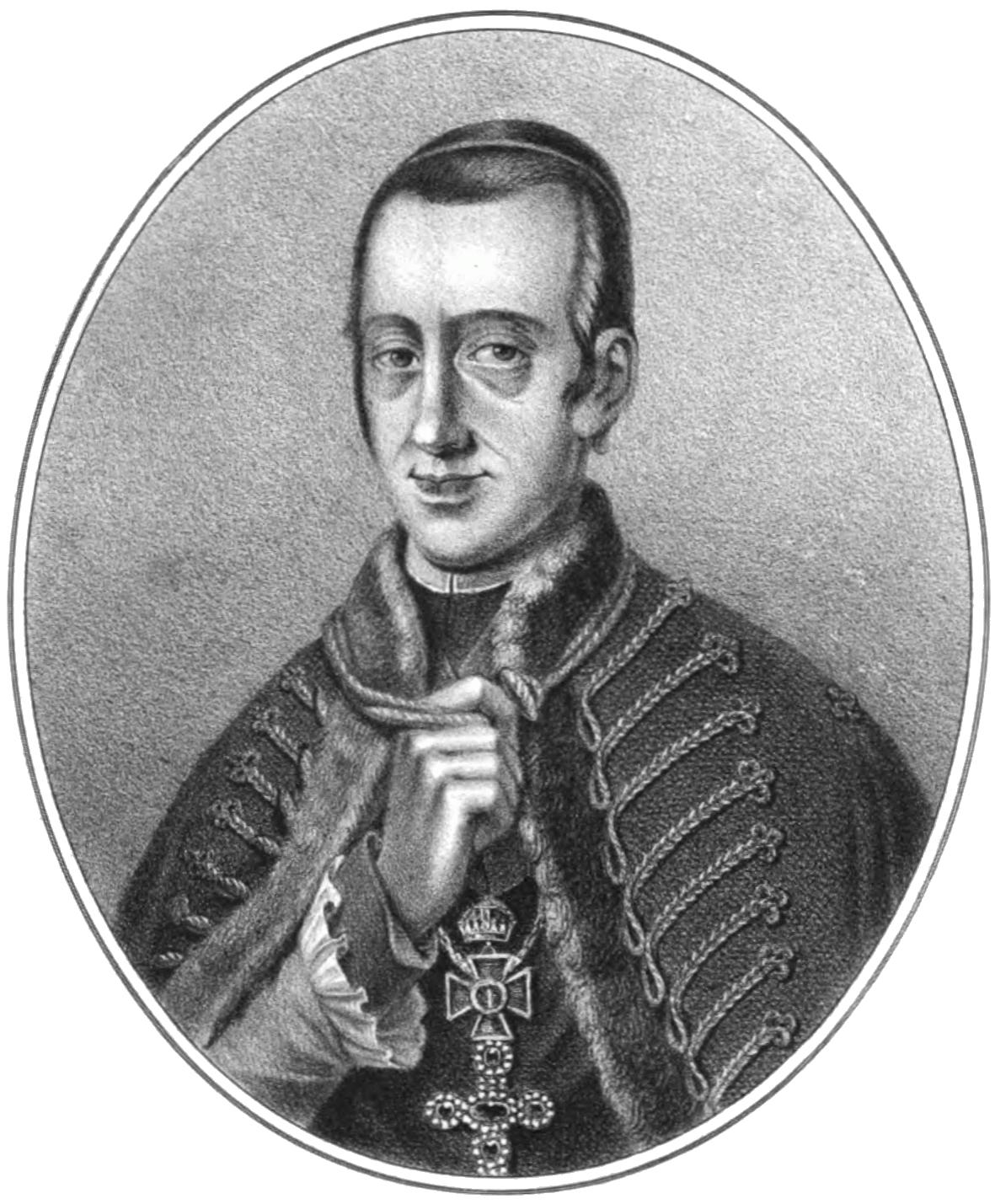 Portrait of Ignác Szepesy (1780-1838), bishop of Pécs